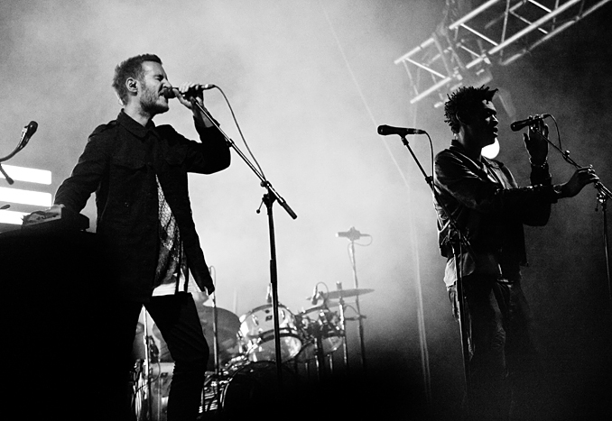 Massive Attack, September 26, 2010, concert at the Saint-Petersburg Sports and Concert Complex.